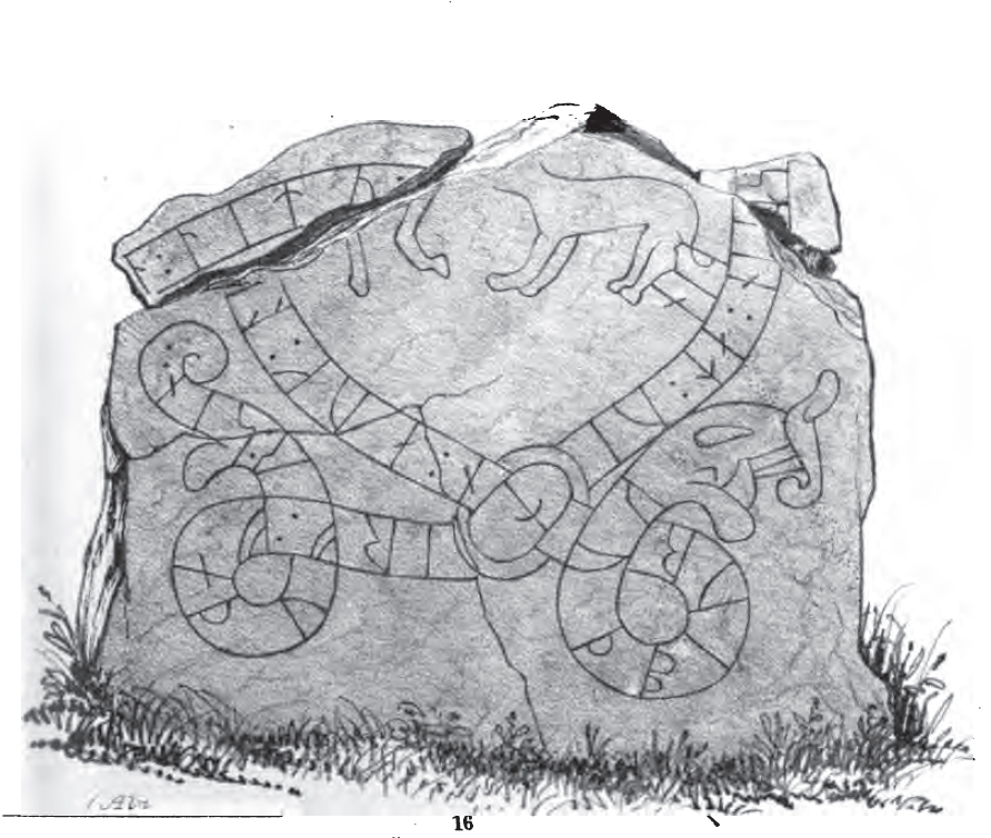 The runestone Sö 235. The inscription reads : kuþbiurn : auk : o...[n : litu : ... sta]in :* þin * at : uitirf : faþur : sin *. In English "Guðbjôrn and ... had this stone raised in memory of Védjarfr, their father."